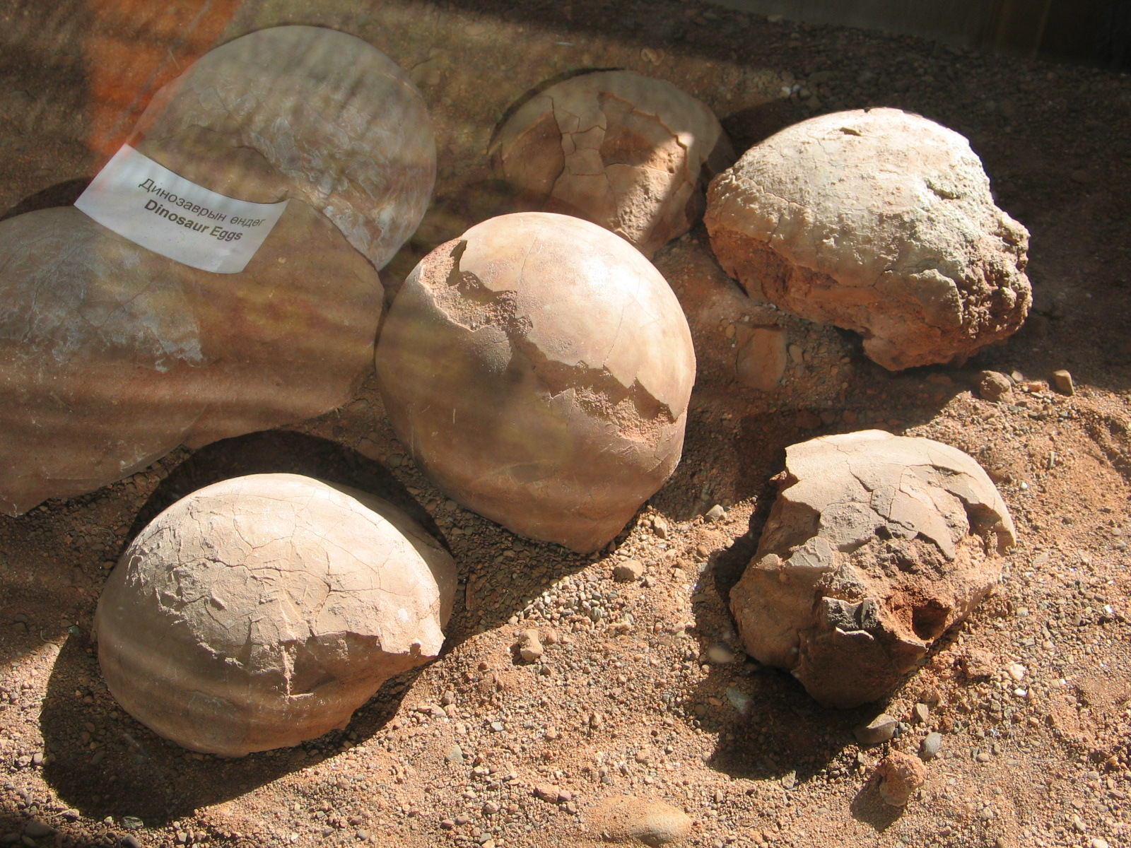 Fossilized dinosaur eggs in the Museum of National History in Ulaanbaatar.